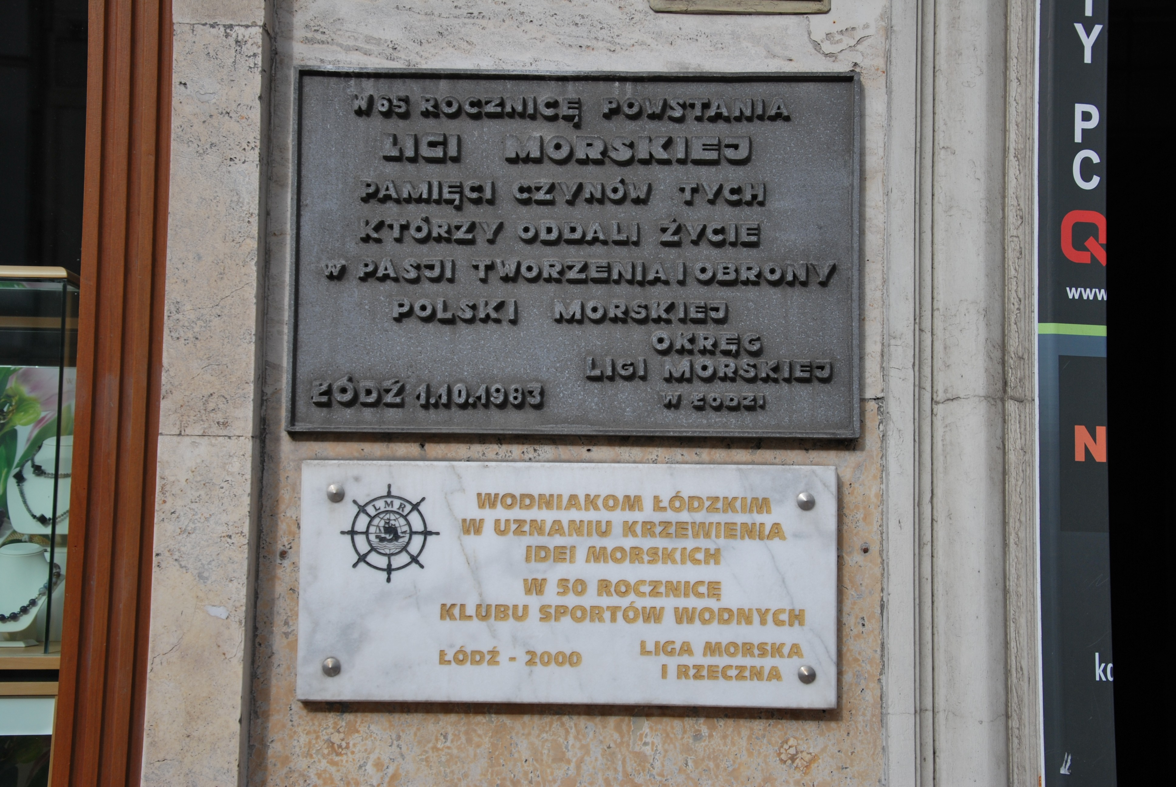 Plaques in 65th anniversary of Sea League in Poland and 50th anniversary of Watersports Club, Łódź Piotrkowska Street